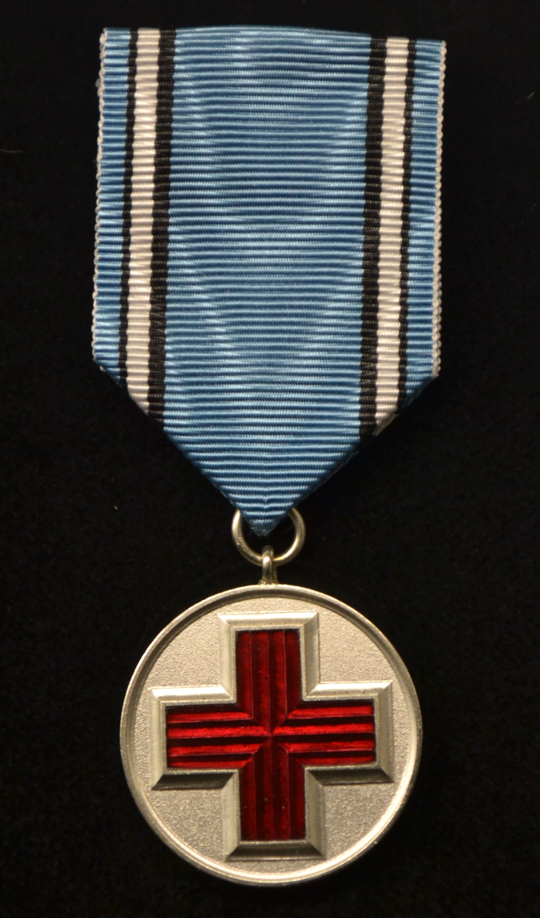 Estonia. Medal of the Order of the Estonian Red Cross, after 1995. The exhibition of the Estonian State Decorations at the National Library of Estonia in Tallinn.